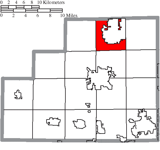 Map of the municipal and township boundaries of Medina County, Ohio, United States, as of the 2000 census, with the location of Brunswick Hills Township highlighted. Township borders are shown only in unincorporated areas in order to differentiate incorporated and unincorporated areas more clearly.